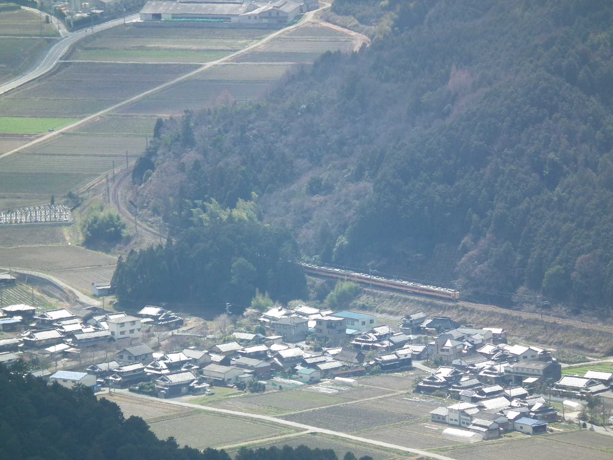 Kaibara-Tanikawa Station aerial photograph